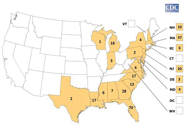 A map of reported human cases of Eastern equine encephalitis from 1964-2010.